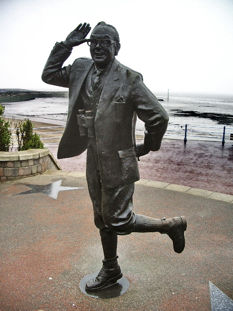 Eric Morecambe Created by Graham Ibbesson.